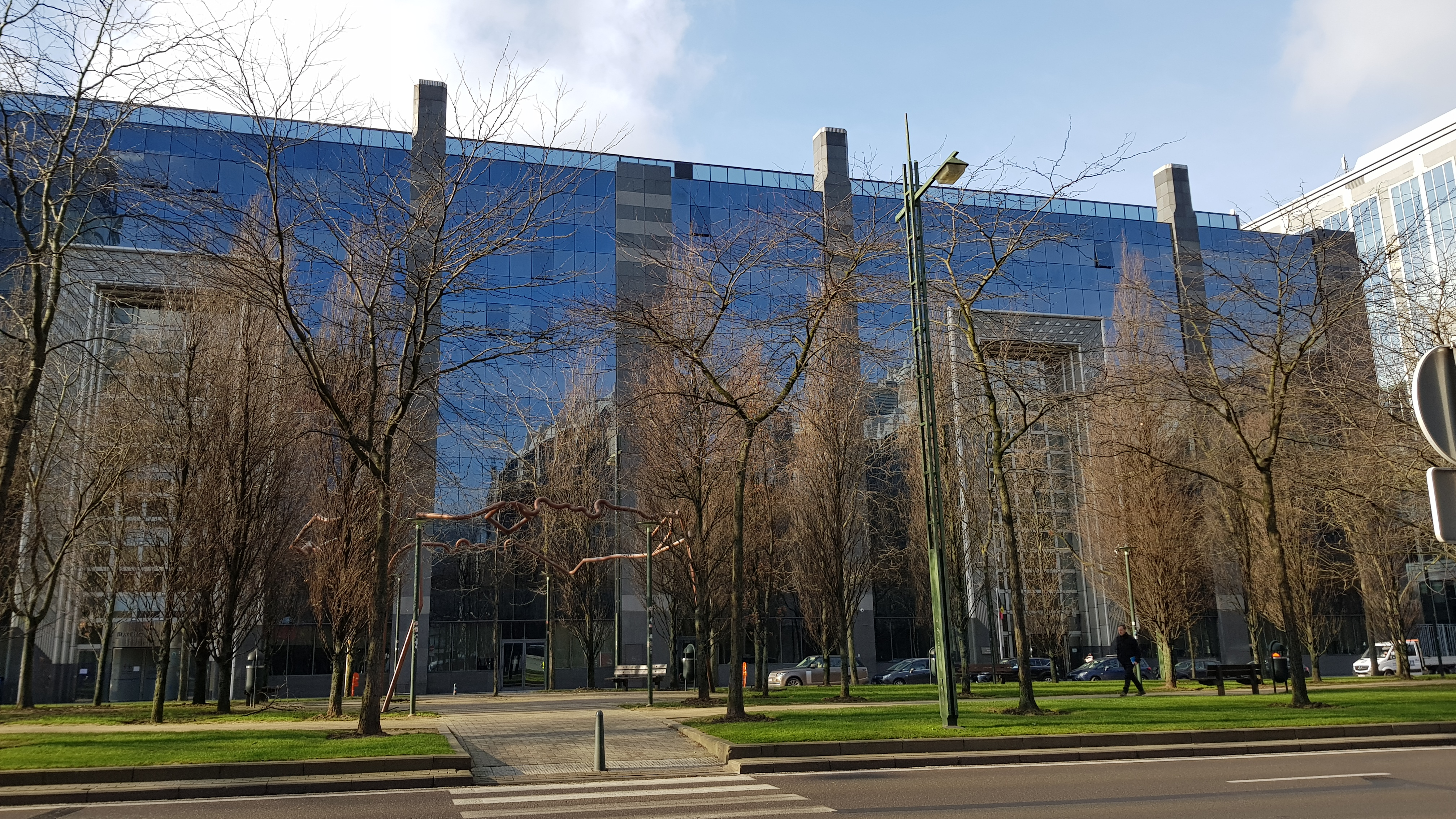 North Gate, Brussels, Belgium